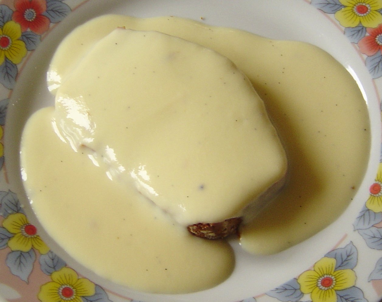 crème anglaise (a kind of custard) and pain d'épices (somewhat like gingerbread)